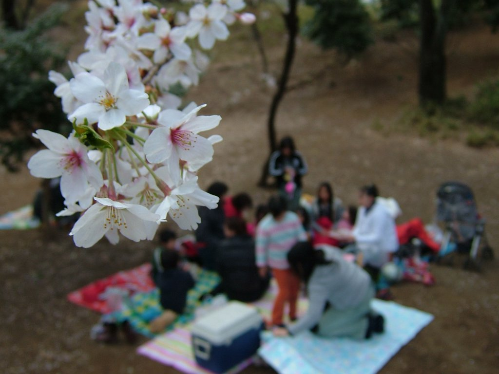 Branch of cherry blossoms and blurred people during hanami.